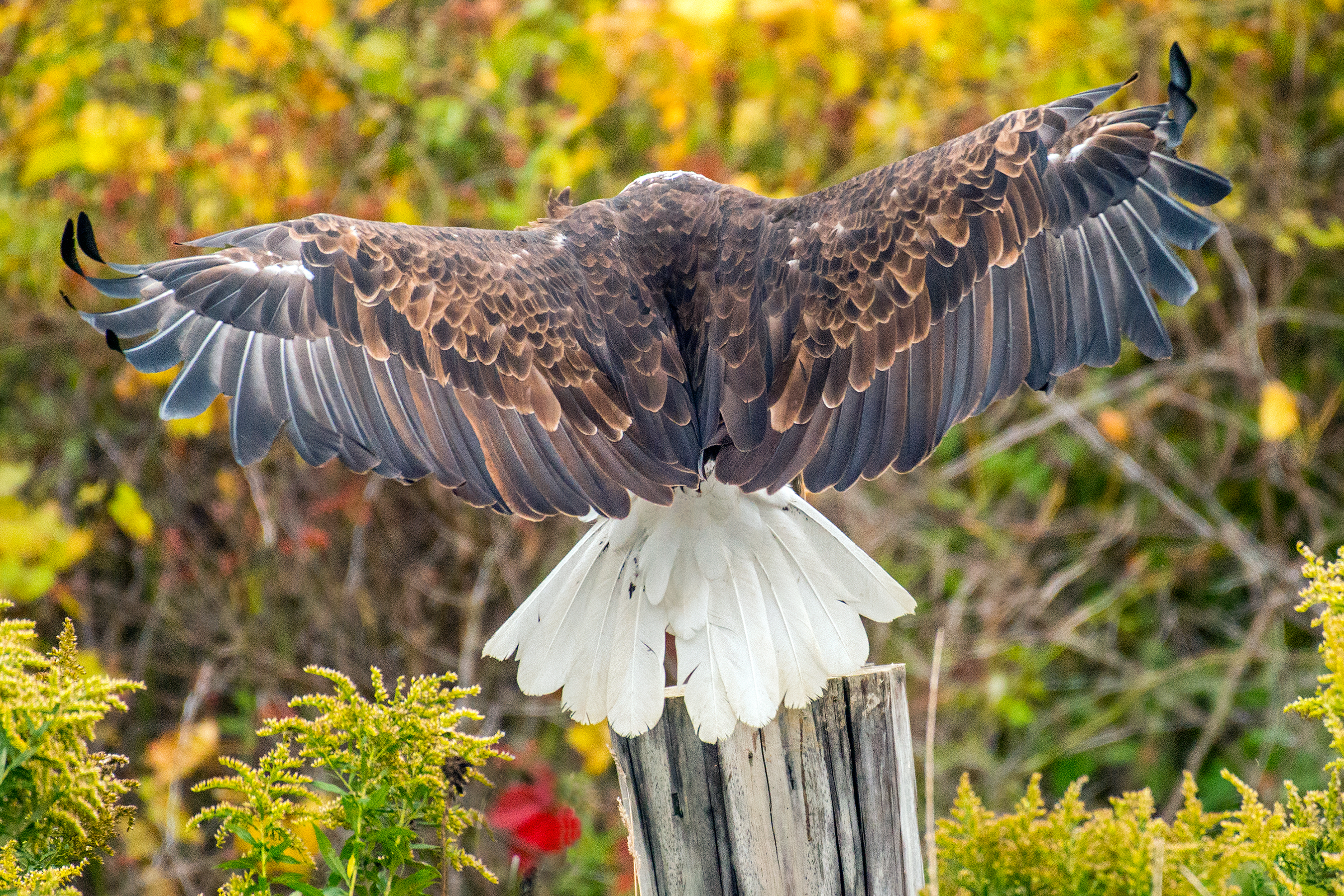 This eagle has a sizeable wingspan